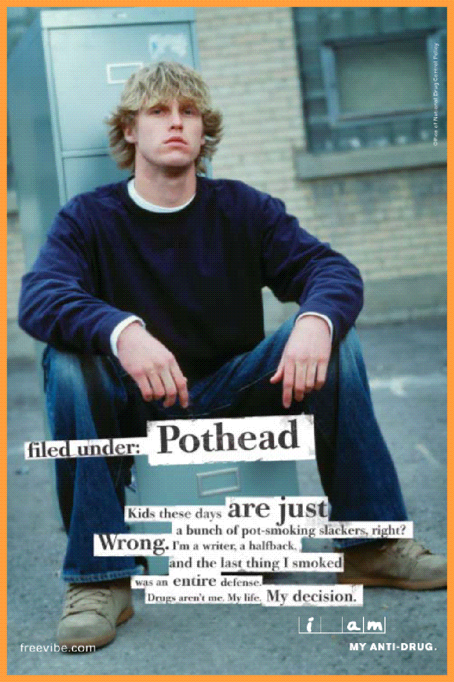 A domestic US propaganda poster circa 2000.